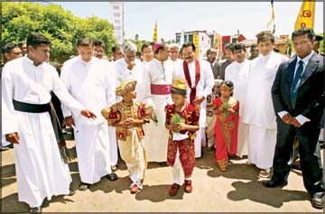 it was an awesome day